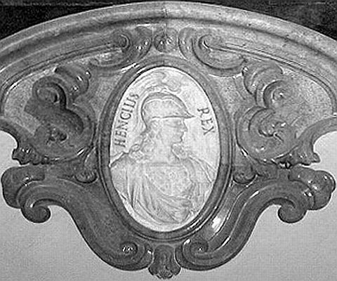 Detail of the Tombstone of King Enzo of Sardinia (son of Frederick II), by Giuseppe Mazza (1731); Chapel of the Holy Cross, left transept; Basilica of Saint Dominic, Bologna, Italy